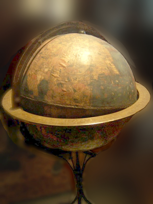 Terrestrial globe named "Erdapfel" produced by Martin Behaim. Considered to be one of the oldest globes ever made.